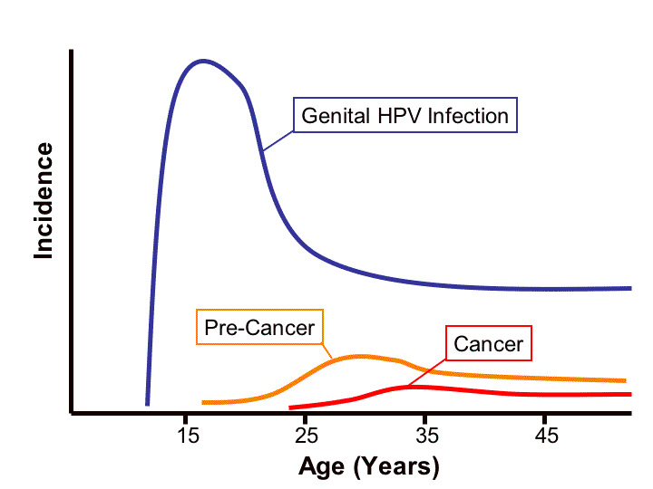 The graph depicts a spike in the occurrence of genital HPV infection (blue line) after the initiation of sexual activity. Most HPV infections are spontaneously cleared by the immune system. The development of pre-cancerous lesions (orange line) and progression to invasive cervical cancer (red line) generally occurs after many years of persistent infection with a cancer-causing HPV type.